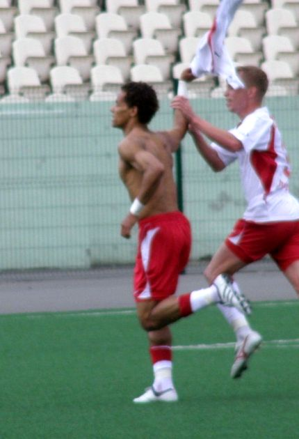 Jean Carlos, Brazil soccer player, after scoring for Amkar in the match Amkar Perm vs Rubin Kazan